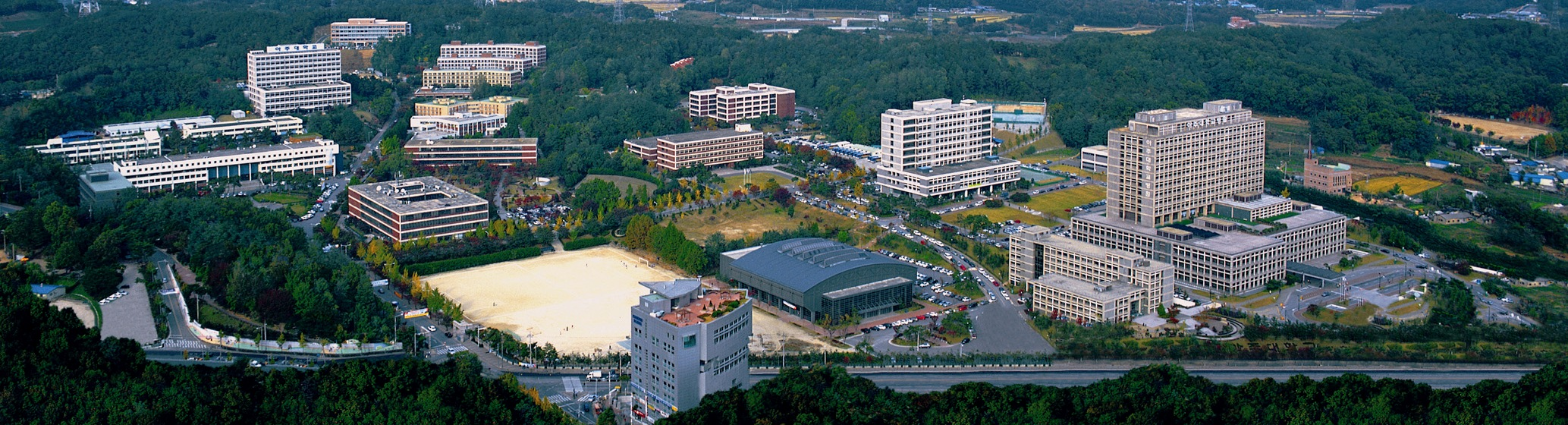 Ajou University Campus is renowned for its beauty and bustles with student life. .